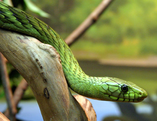 Western Green Mamba, Dendroaspis viridis, captive animal. Location: Jacksonville Zoo, Jacksonville, Florida, United States